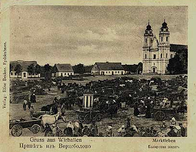 Postcard from sent in 1912, showwing Verzhbalovo (Wirballen, lit. Virbalis) market place